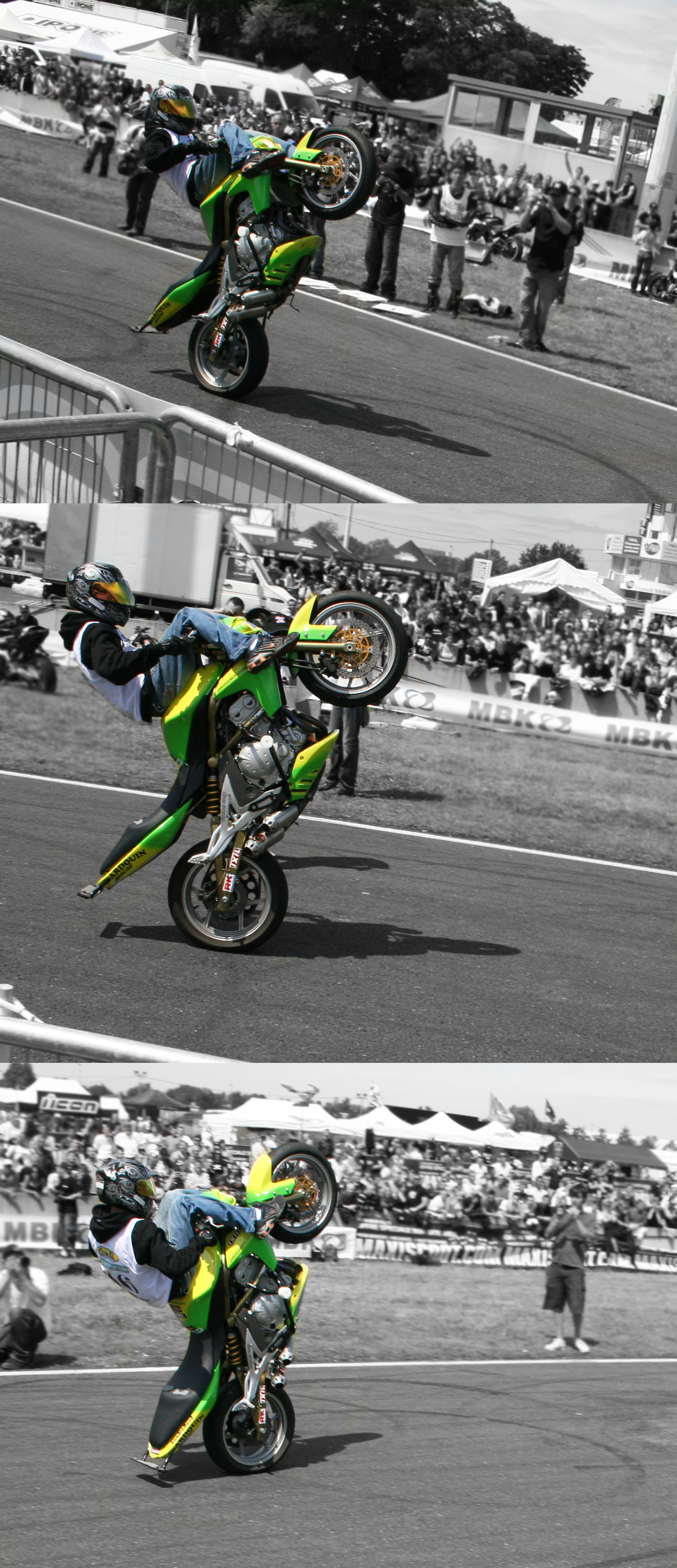 Wheeling fenwick, during the Stunt Bike Show (Carole Racetrack, France)